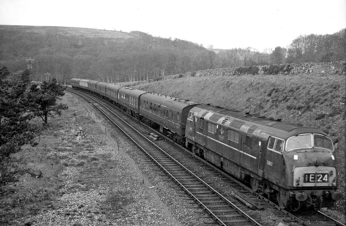 Up 'Cornishman' near Ivybridge with a 'Warship' Diesel-hydraulic. View westward, towards Plymouth and Penzance; ex-GWR West of England main line. By 1964, the Diesel-hydraulics were in sole possession of the lines at least west of Exeter. This is Swindon-built (6/60) B-B type No. D822 'Hercules' on the 10.45 Penzance to Sheffield, the 'Cornishman' having been not long diverted from its earlier GWR route to Wolverhampton. (Ivybridge station - west of this location, was closed in 1965 but rebuilt near this spot in 1994).